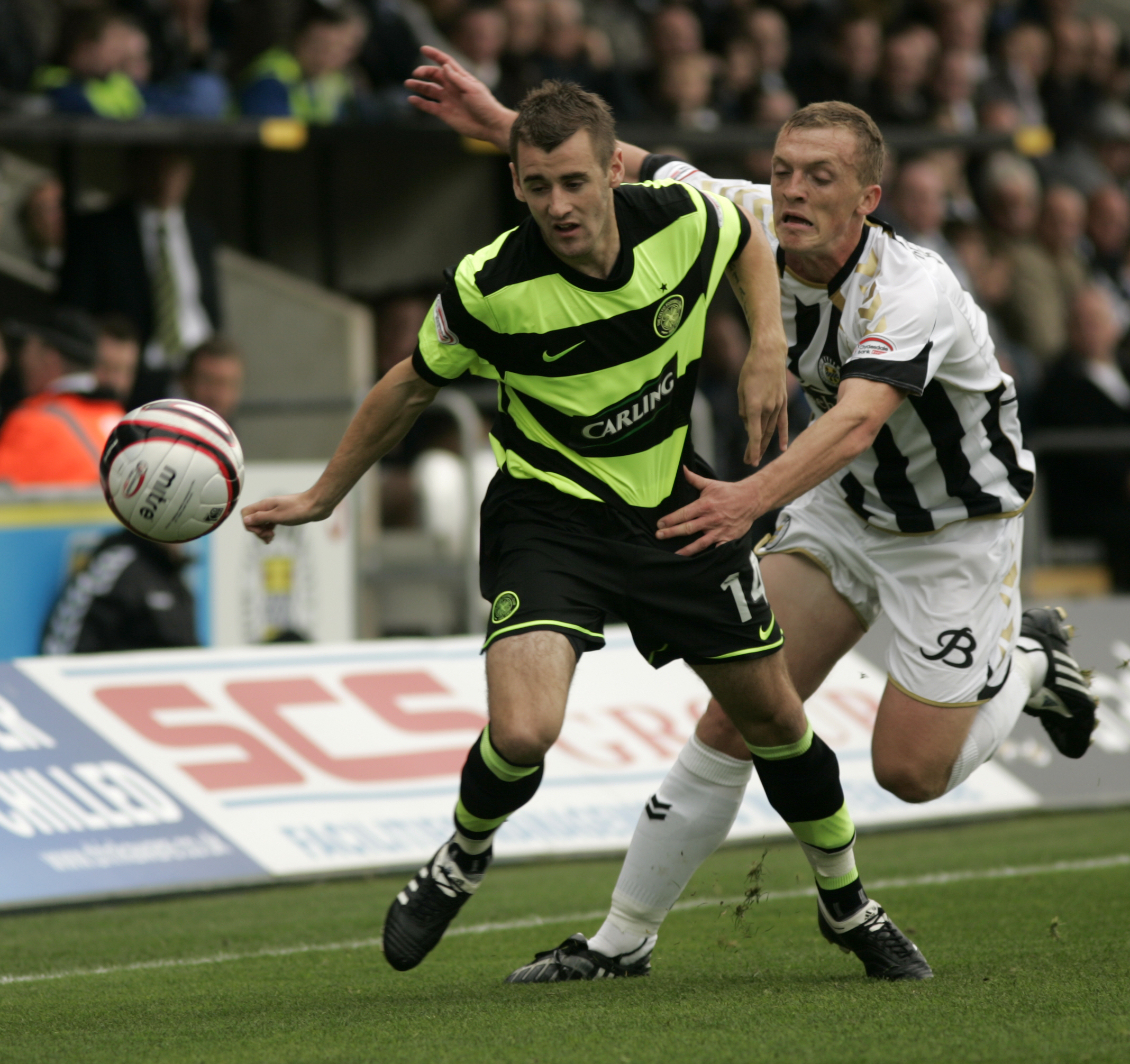 Niall McGinn